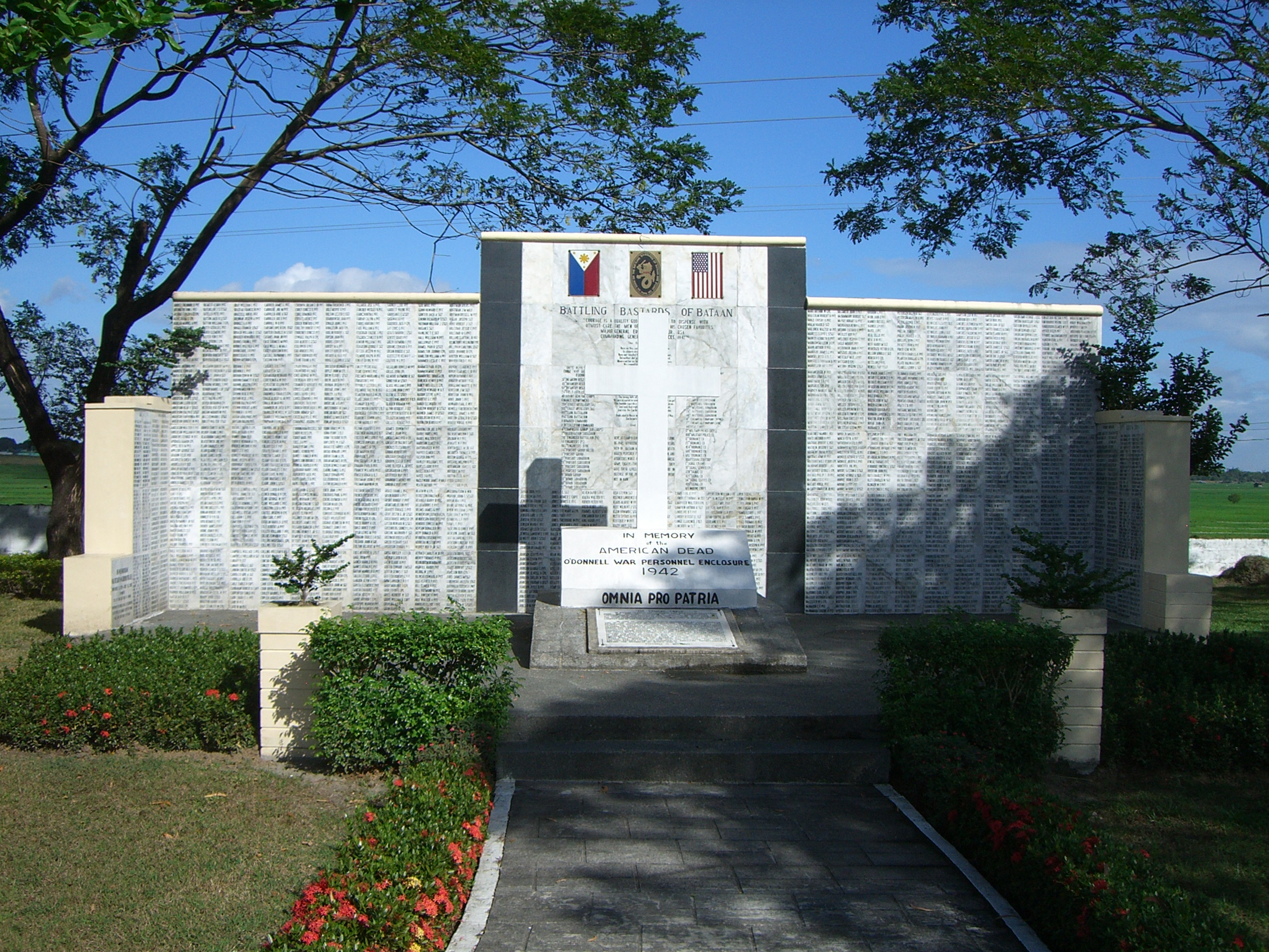 Battling Bastards of Bataan Memorial at Camp O'Donnell, Philippines